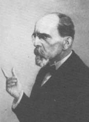 Professor Hugo Krabbe (1857-1936), law professor at Rijksuniversiteit Groningen & Leiden University. Unknown photographer, around 1920?